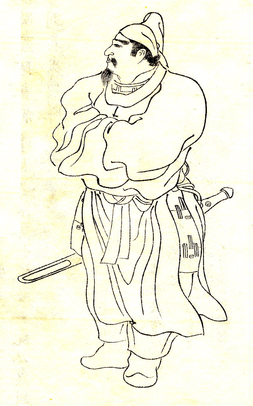 Otomo no Satehiko(大伴挾手彦) was a Japanese politician in Asuka period.This picture was drawn by Kikuchi Yosai（菊池容斎） who was a painter in Japan.